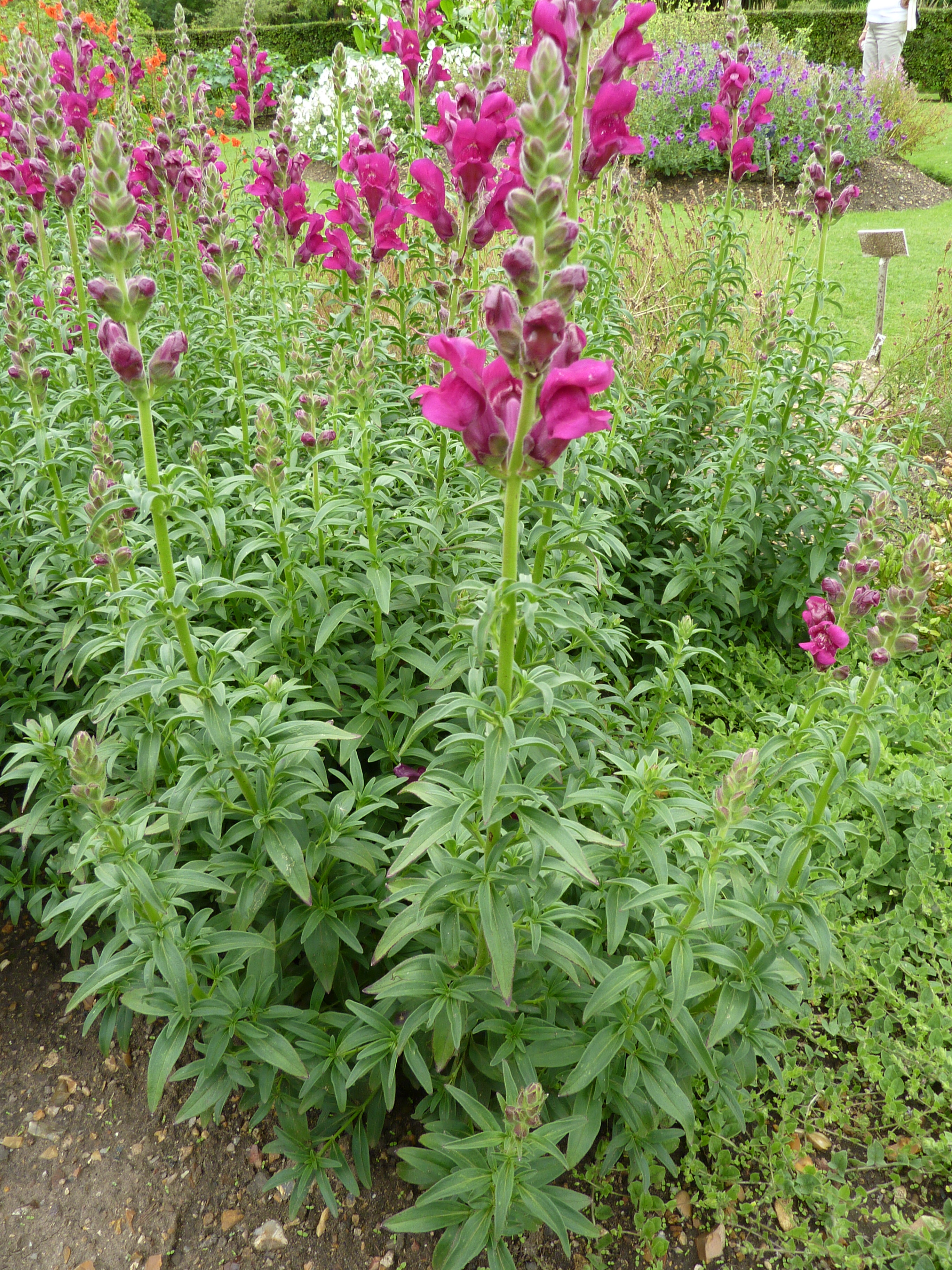 Antirrhinum majus, Cambridge University Botanic Garden